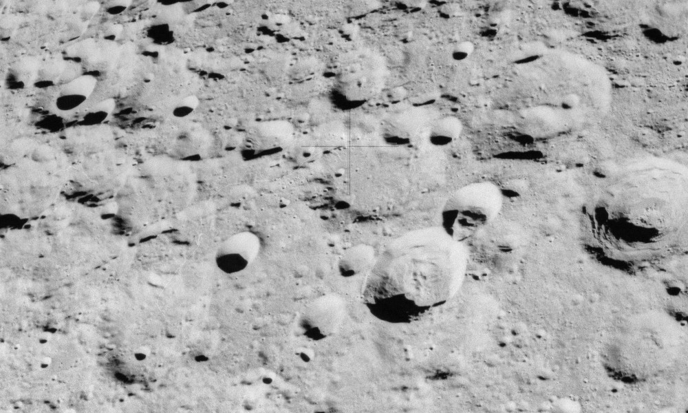 Oblique view of Sumner crater (lower left) and Catena Sumner, on the far side of the moon.